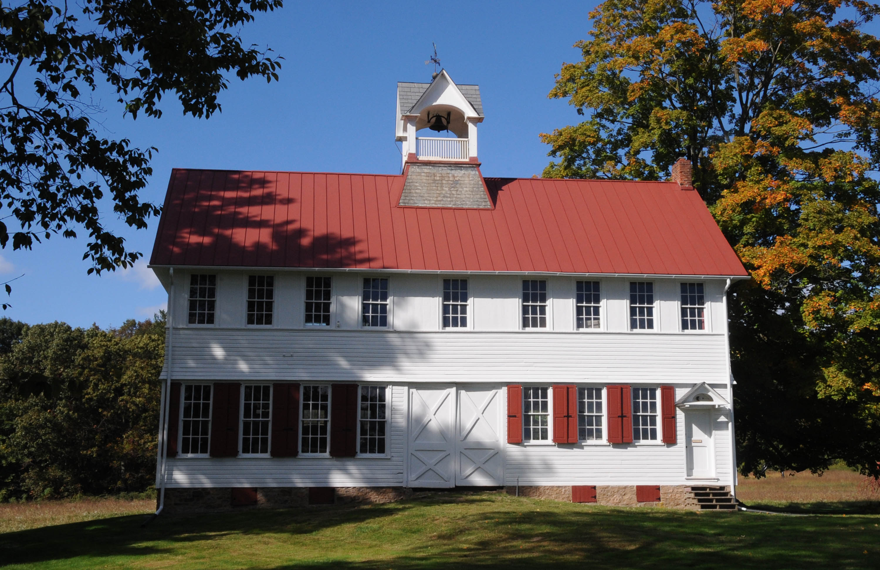 LATE 18TH CENTURY AND EARLY 19TH CENTURY COMPLEX CONSISTING OF THE MAIN FARMHOUSE, COTTAGE HOUSES, BARN. IN THE 1890’S THE FARM WAS DEVELOPED BY W. ATLEE BURPEE AND THE BURPEE COMPANY